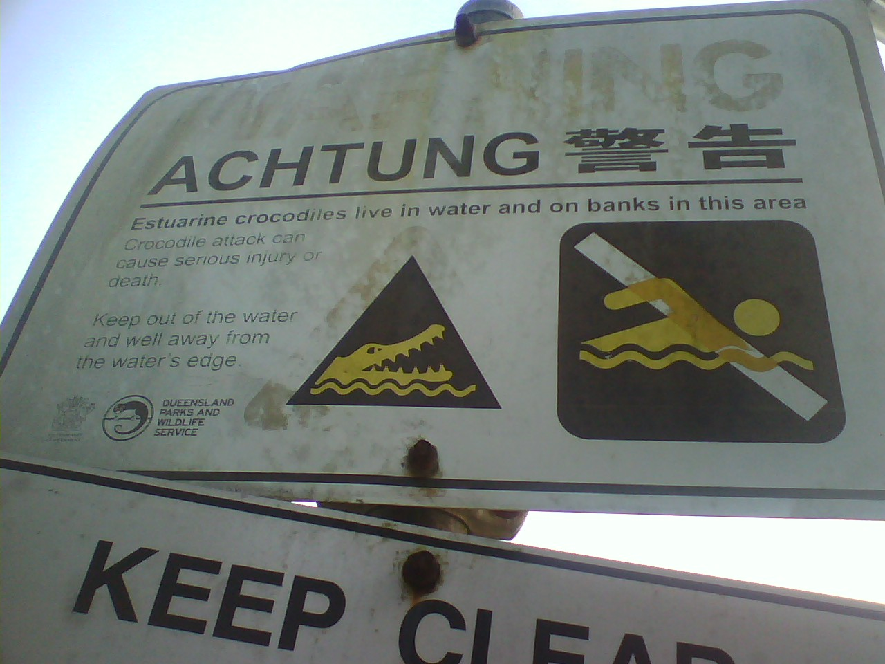 Crocodile warning sign on the Daintree river in Far North Queensland, Australia.